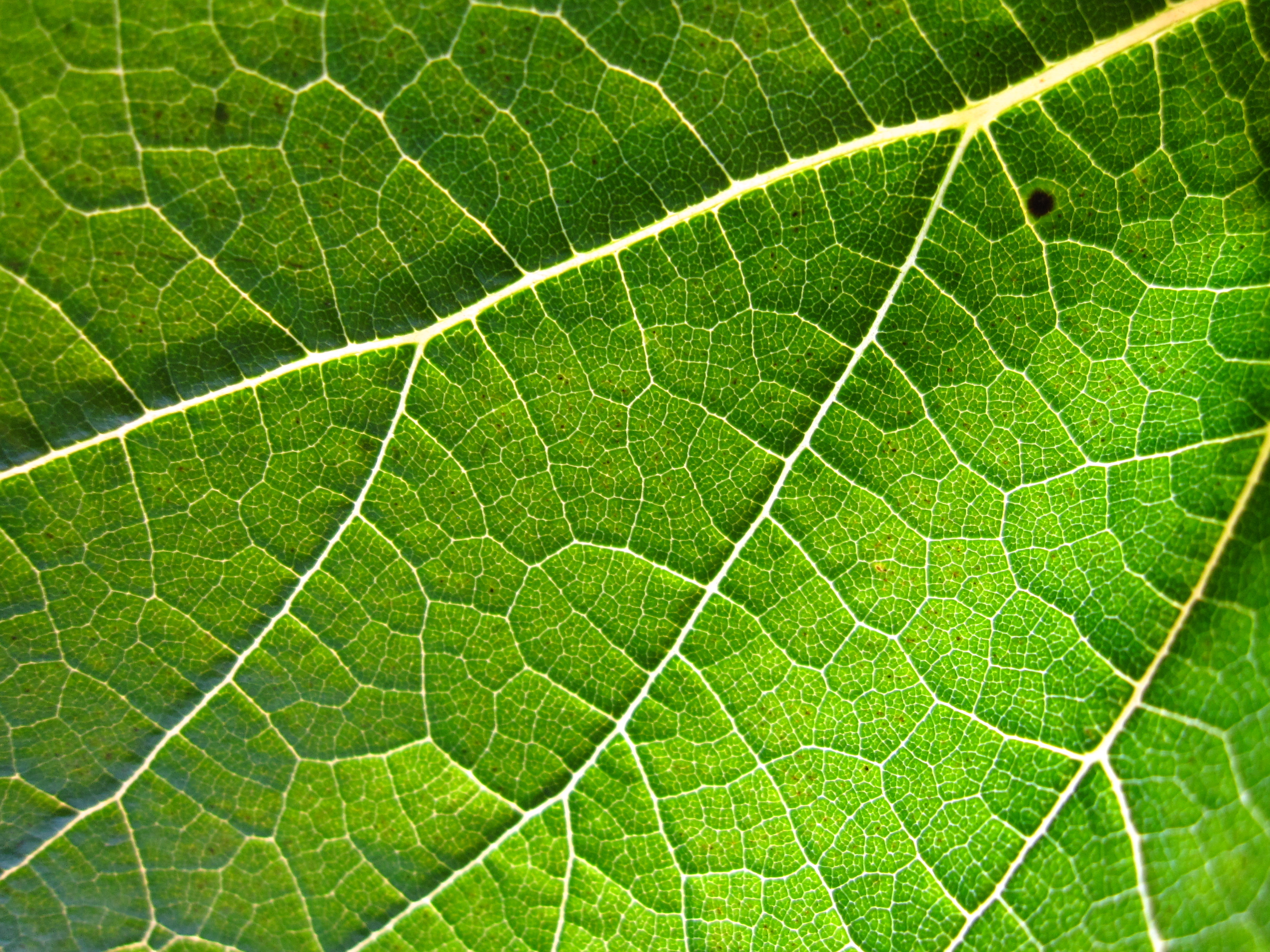 Detail of grapevine leaf.